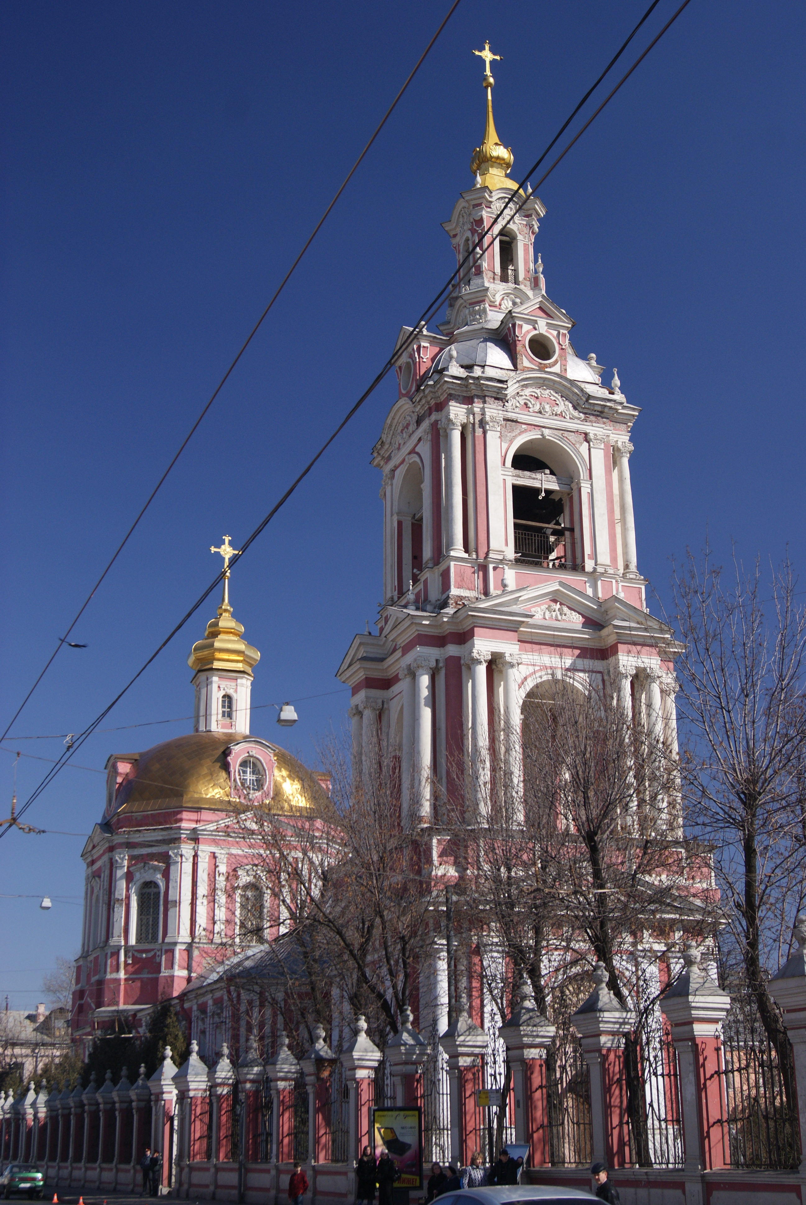 Church of Saint Nikita Martyr in Basmannaya Sloboda